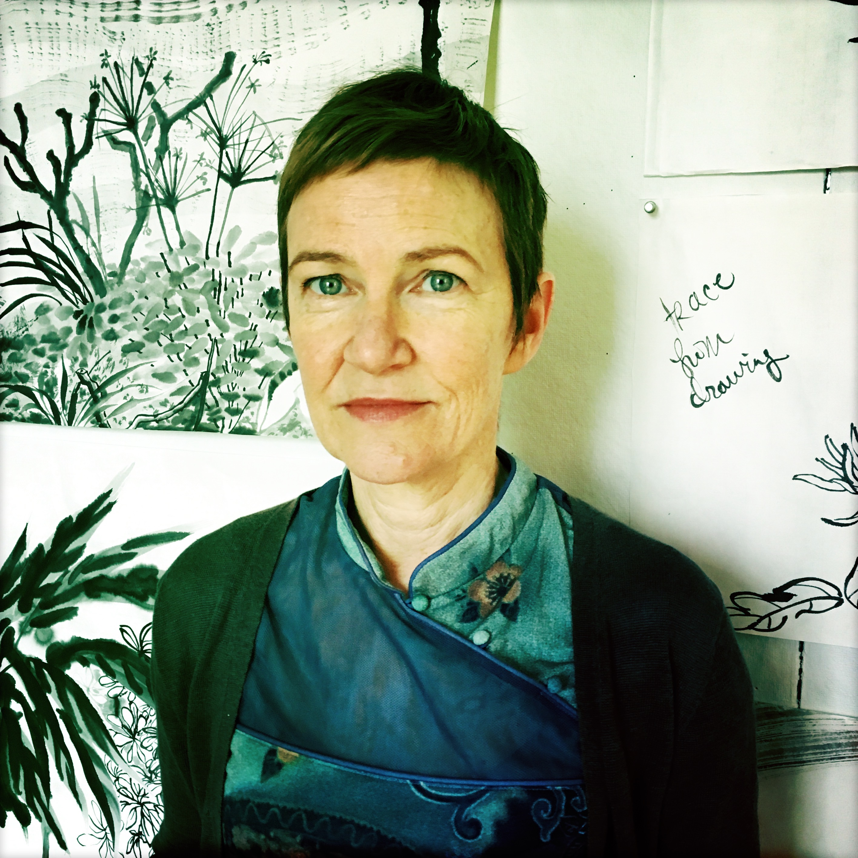 Artist Elisabeth Condon at Wave Hill in 2017